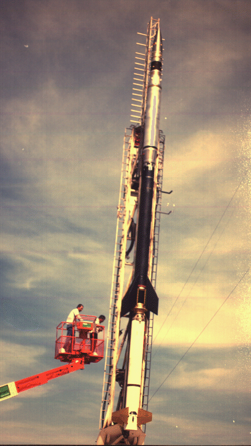 The MSSTA sounding rocket payload atop sounding rocket 36.049 at White Sands Missile Range, in May 1991. The white section is a Terrier solid rocket booster; the black section is a Black Brant sustainer; and the silvery section is the telescope array inside its stainless steel protective skin.